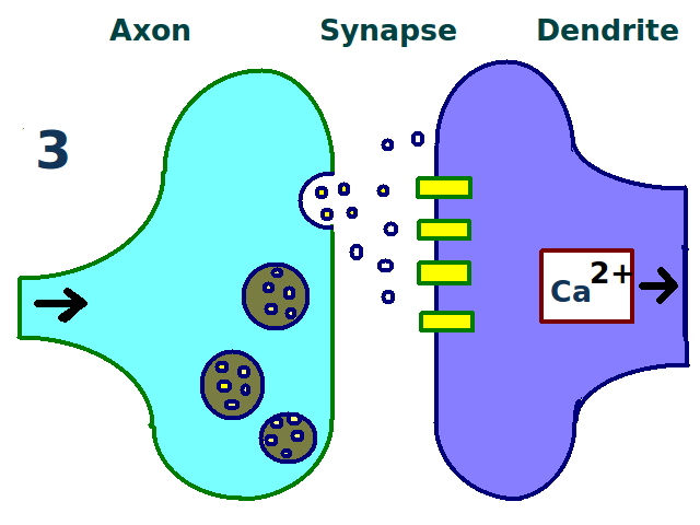 Long term potentiation, third stage. More neurotransmitters are produced.